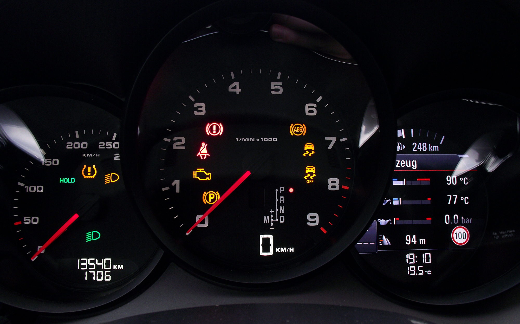 Porsche Cayman 981c Instrument Cluster